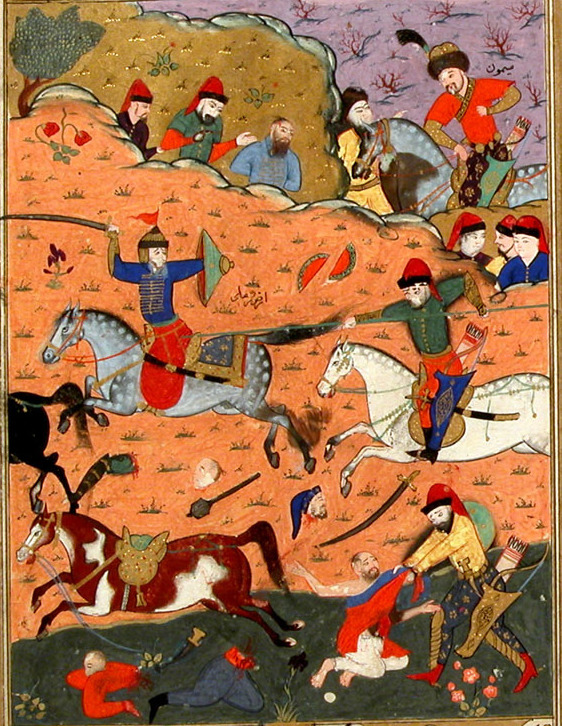 The men of Erzurum attacked by Simun (This is the only known likeness of Mad Simon of Kartli)